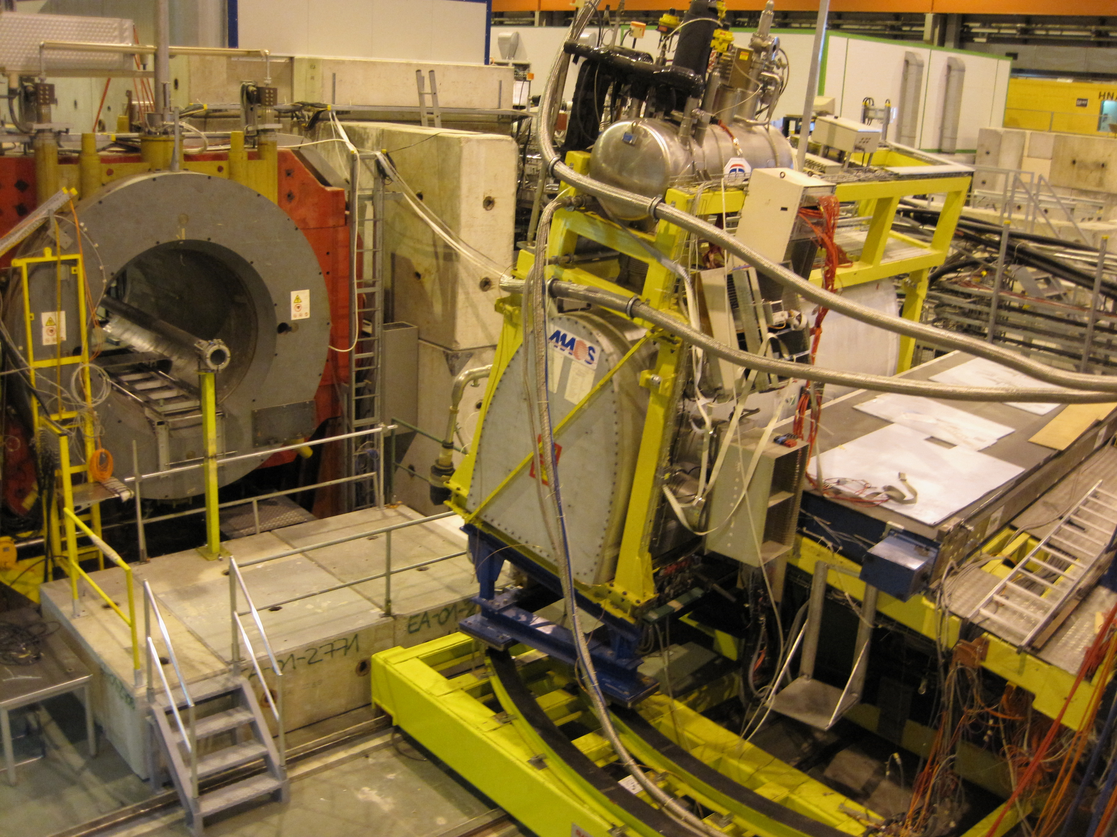 Beamline from SPS, during the time the picture was taken it was active feeding the AMS with 20 GeV positrons for alignment testing.